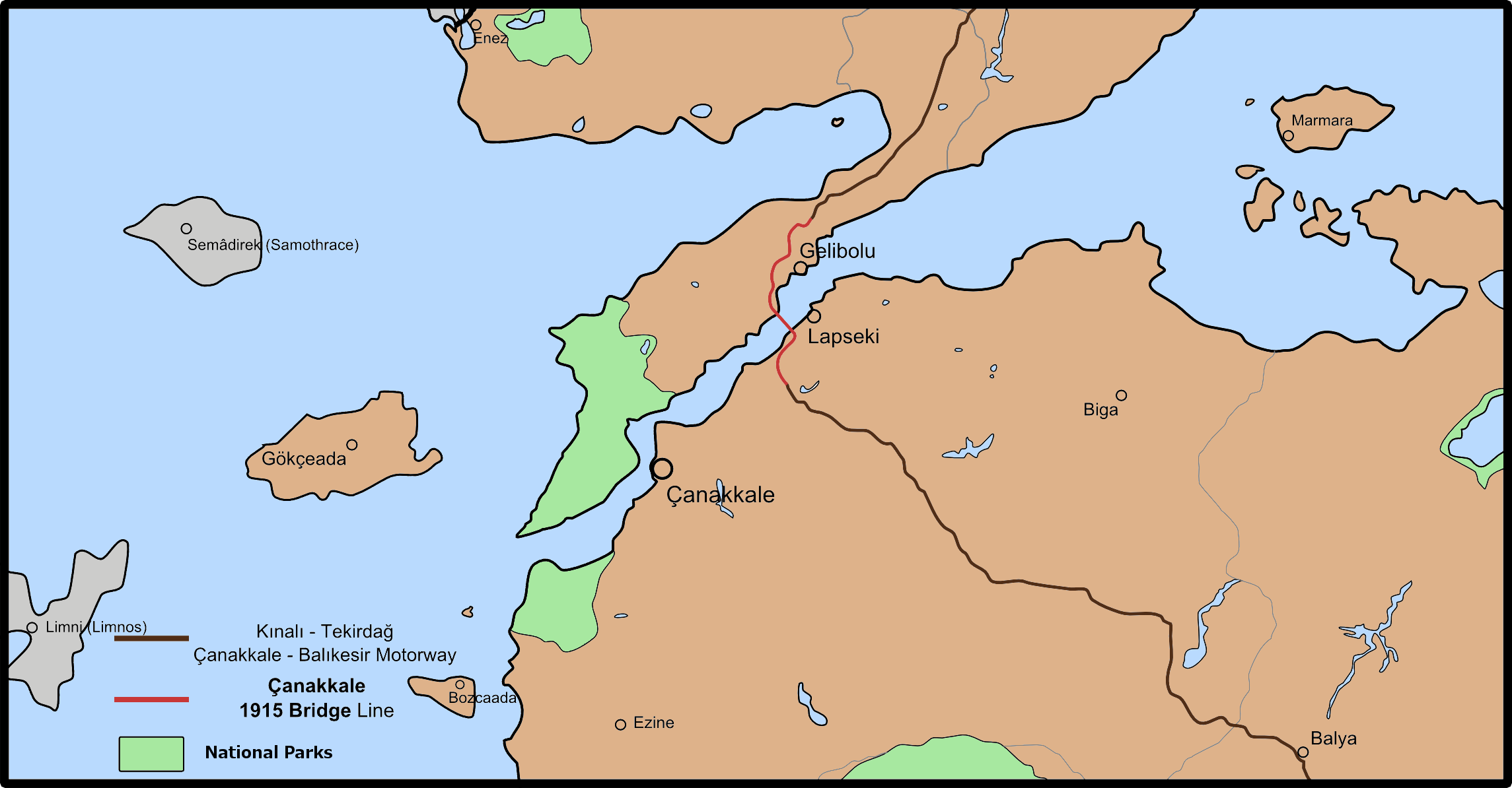 Planned construction line for the North Marmara Motorway (Kınalı-Tekirdağ-Çanakkale-Balıkesir) and Çanakkale 1915 Bridge which will be connecting Europe and Asia.